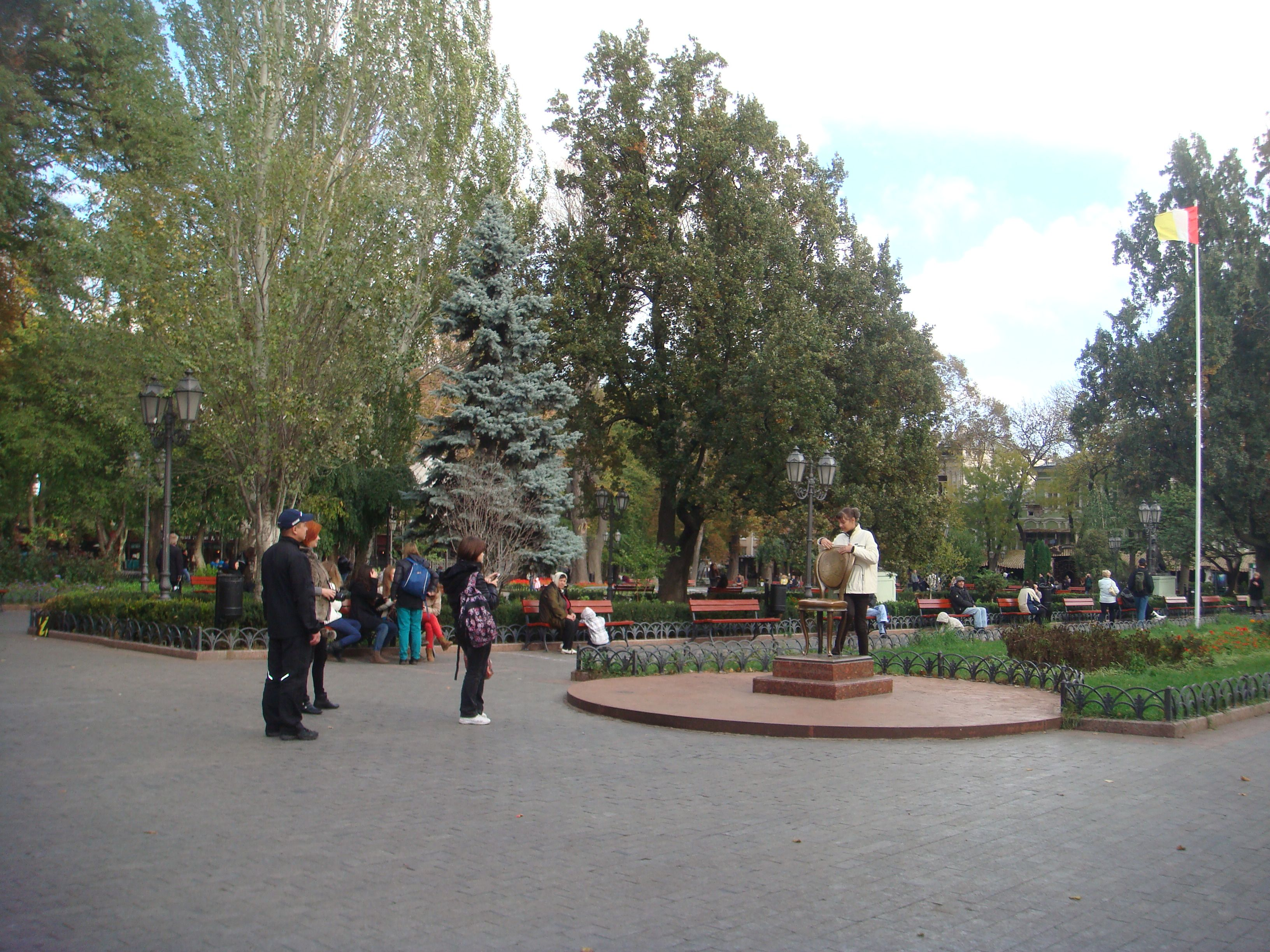 Odessa City Garden. View of monument to soviet writters Ilf & Petrov "12th chair"